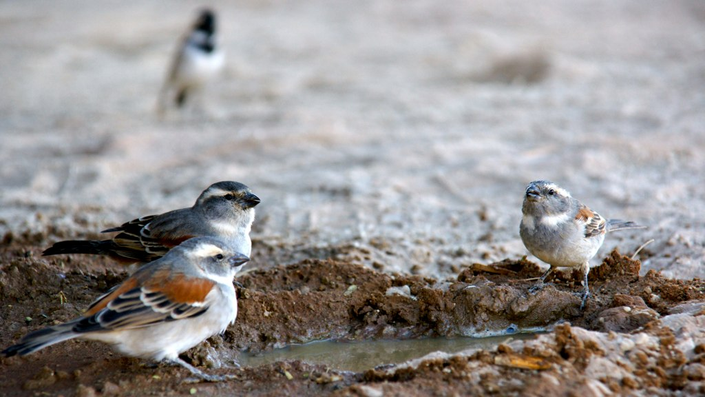 Three female Cape Sparrows or Mossies of the subspecies damarensis in Namibia around a small pool of water. A male is in the background and out-of-focus.